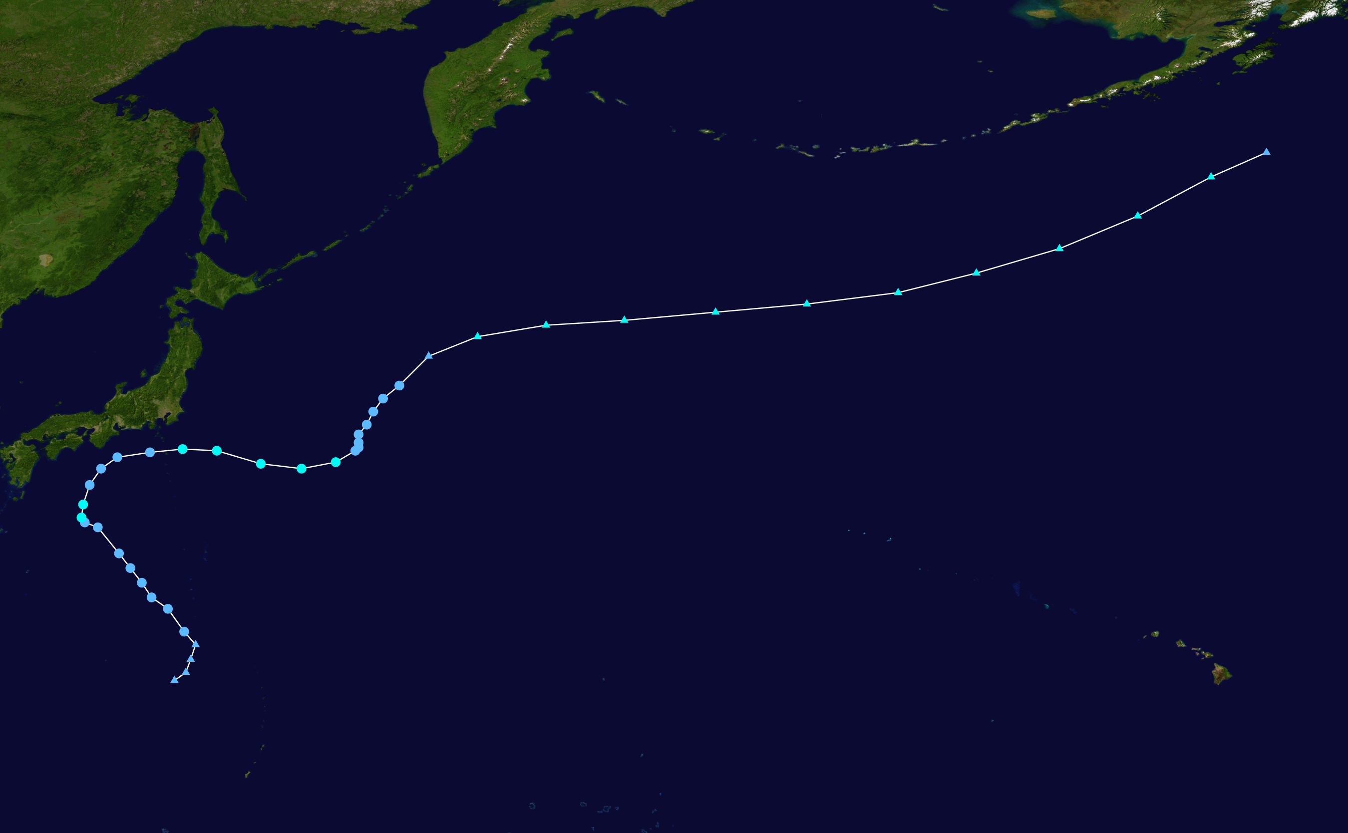 Track map of Tropical Storm Etau of the 2009 Pacific typhoon season. The points show the location of the storm at 6-hour intervals. The colour represents the storm's maximum sustained wind speeds as classified in the Saffir–Simpson scale (see below), and the shape of the data points represent the nature of the storm, according to the legend below. Saffir–Simpson scale Tropical depression≤38 mph≤62 km/h Category 3111–129 mph178–208 km/h Tropical storm39–73 mph63–118 km/h Category 4130–156 mph209–251 km/h Category 174–95 mph119–153 km/h Category 5≥157 mph≥252 km/h Category 296–110 mph154–177 km/h Unknown Storm type Tropical cyclone Subtropical cyclone Extratropical cyclone / Remnant low / Tropical disturbance / Monsoon depression